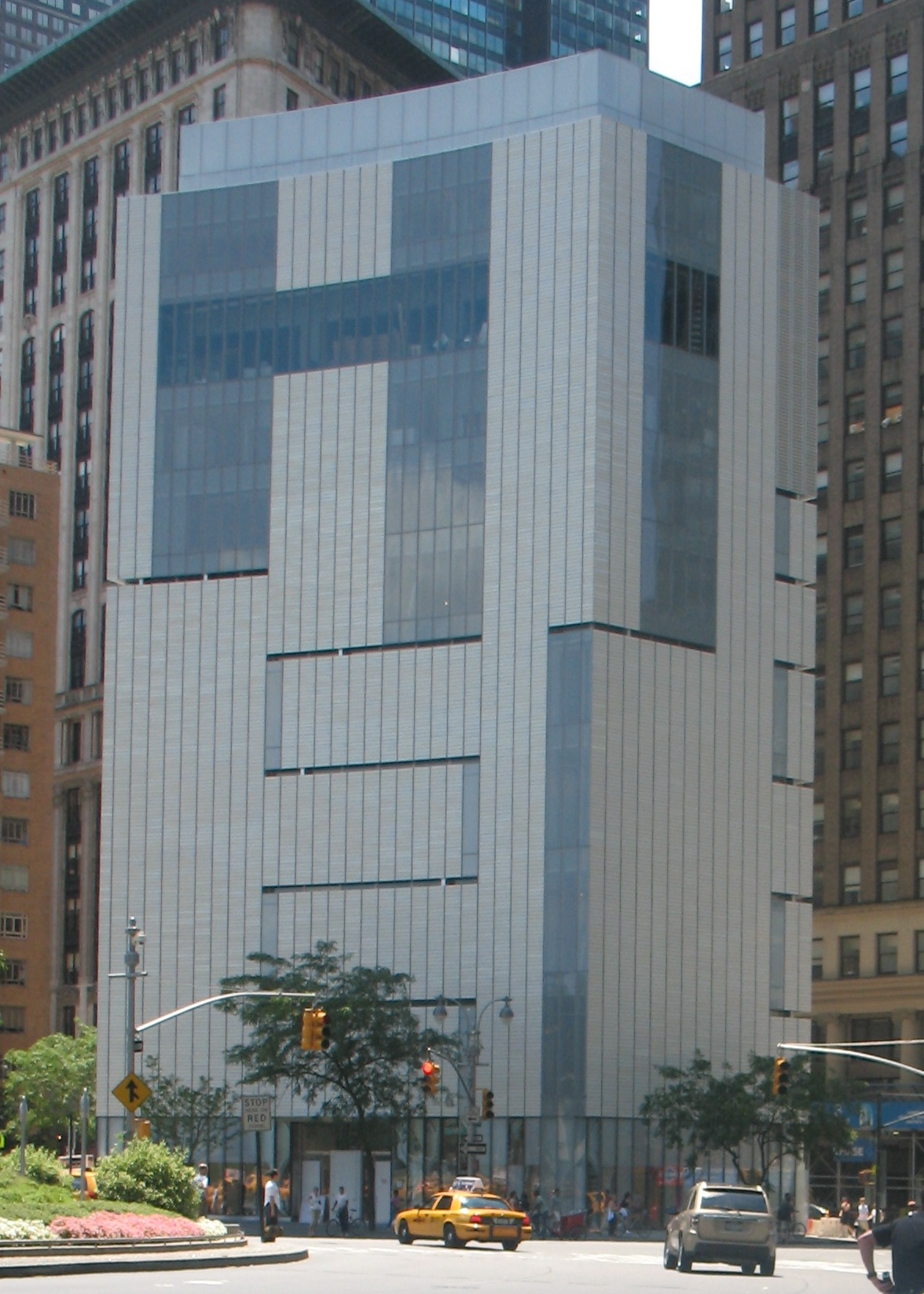 Stefan Weisman, author Photograph taken July 13, 2008